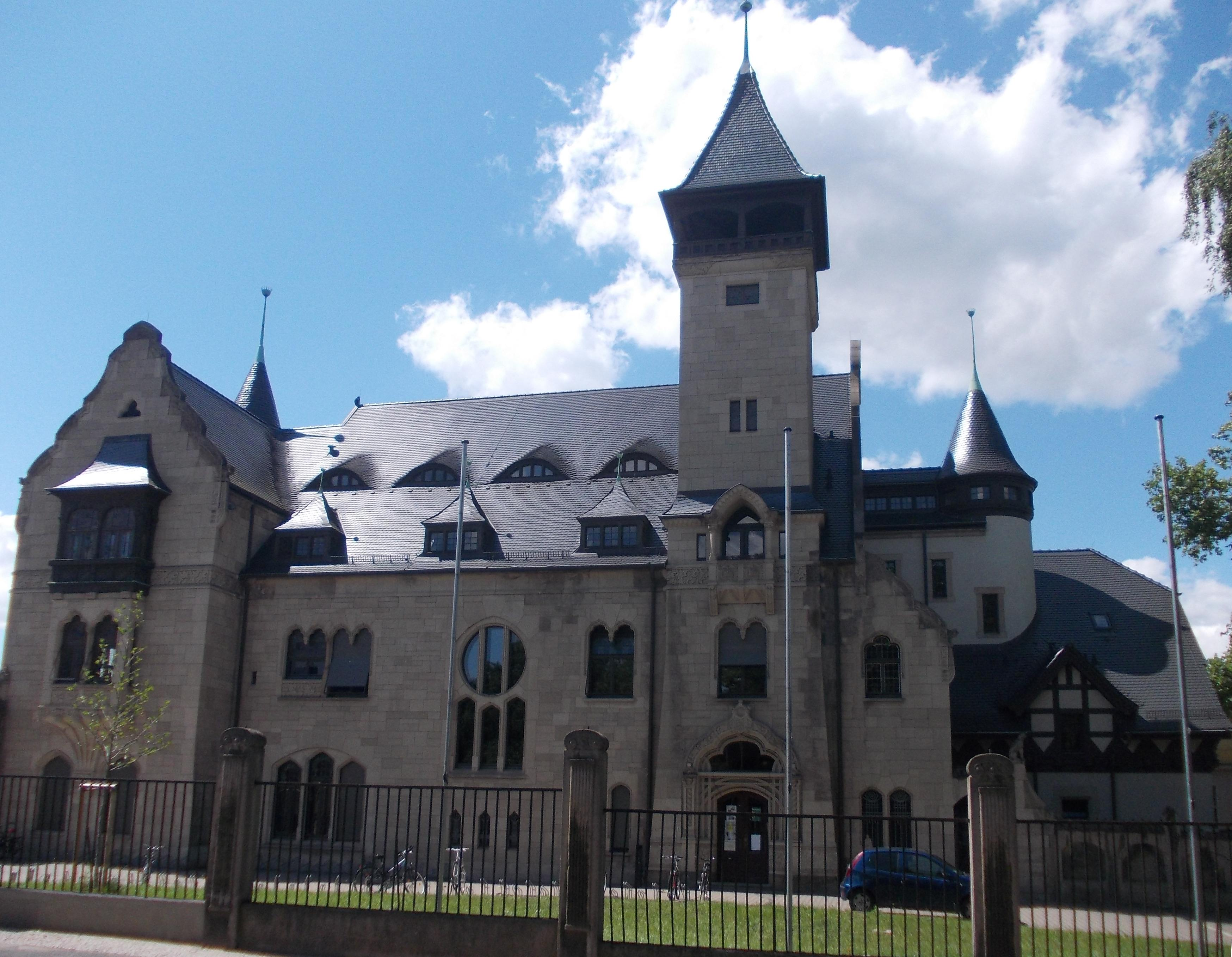 Villa Steckner, No. 7, Neuwerk in Halle/Saale (Saxony-Anhalt)